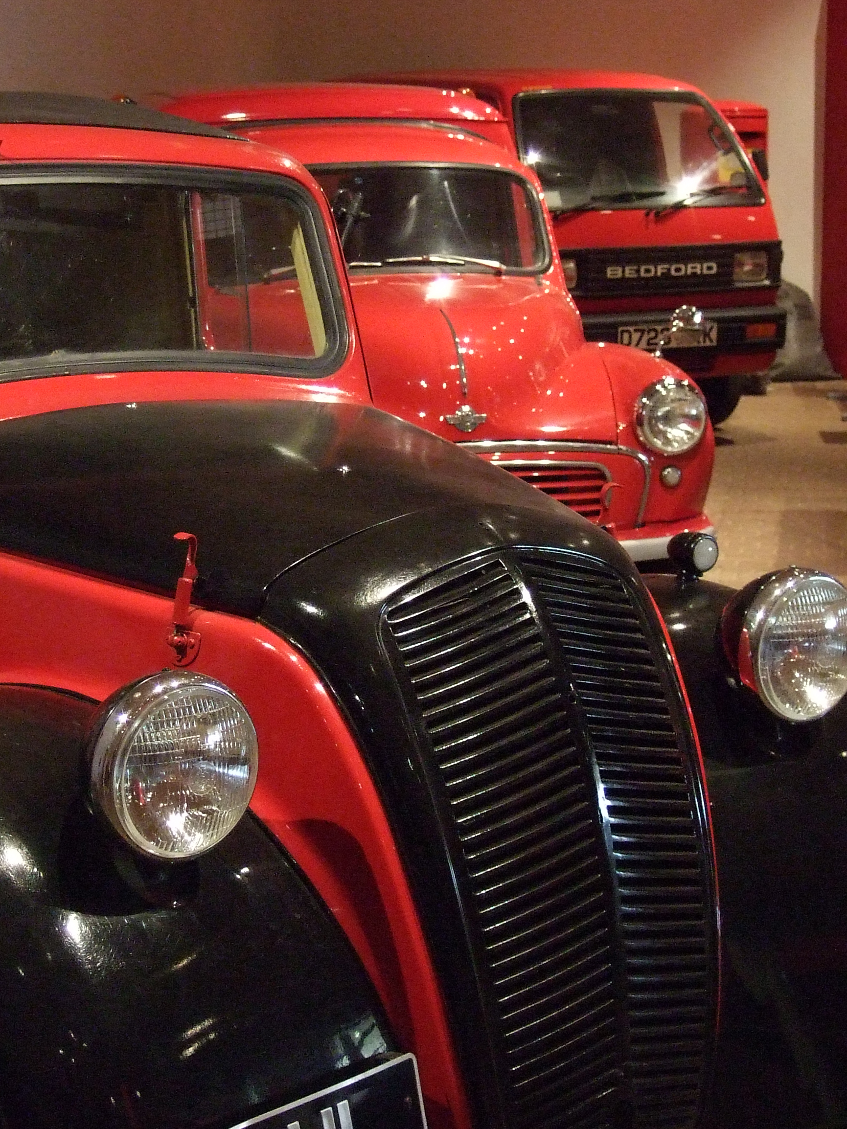 The exhibition features a number of vehicles including a Morris Z van (front), a Morris Minor van (middle) and a Bedford Rascal (1987). For more information on this exhibition please visit: our website